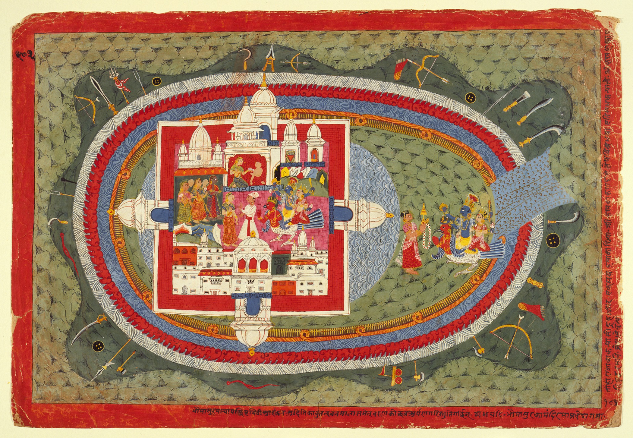 Nepal, 1775-1800 Drawings; watercolors Opaque watercolor and ink on paper Gift of the Michael J. Connell Foundation (M.72.3.1) South and Southeast Asian Art